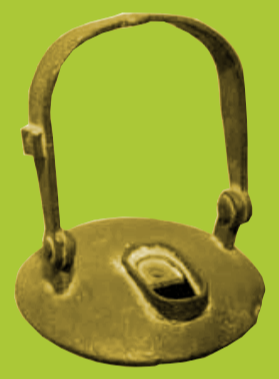 From Cultural Centre B.Polje (Museums of Montenegro) "Sasi" (Saxons) were known miners in the medieval Kingdom of Serbia. Among other things, in 1254. years in the area of ??Zeta open a silver mine, and the same name Brskovo mining and trading village (near present-day Mojkovac, Montenegro). Since the Serbian kings they provided many benefits. They had their municipality, the prince and the court, and among Christians Orthodox Church and its Benedictine Catholic Church (Archdiocese in the seaside town of Bar). The 1280th Brskovo becomes smaller town, but already 1443th - almost abandoned place. Srpski (latinica): "Sasi" (Saksonci) su bili poznati rudari u srednjovjekovnoj Kraljevini Srbiji. Između ostalog, 1254. godine su u oblasti Zeta otvorili rudnik srebra, Brskovo i istoimeno rudarsko-trgovačko naselje (pored današnjeg Mojkovca, u Crnoj Gori). Od srpskih kraljeva su im omogućene mnoge povlastice. Imali su svoju opštinu, kneza i sud, a među ortodiksnim hrišćanima i svoju benediktinsku katoličku crkvu (pod nadbiskupijom u primorskom gradu Baru).